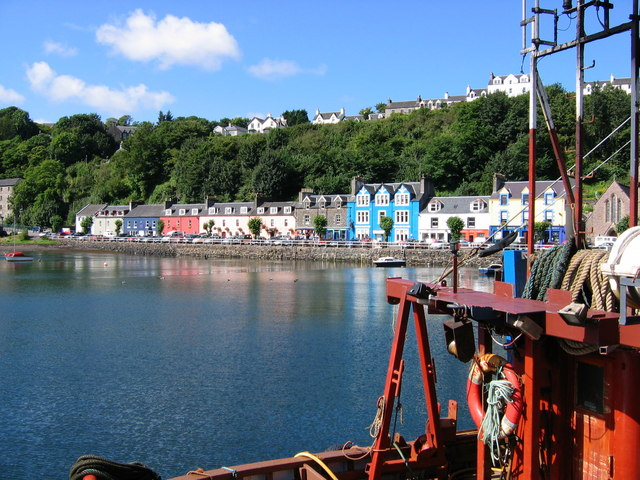 Tobermory Looking west from the pier